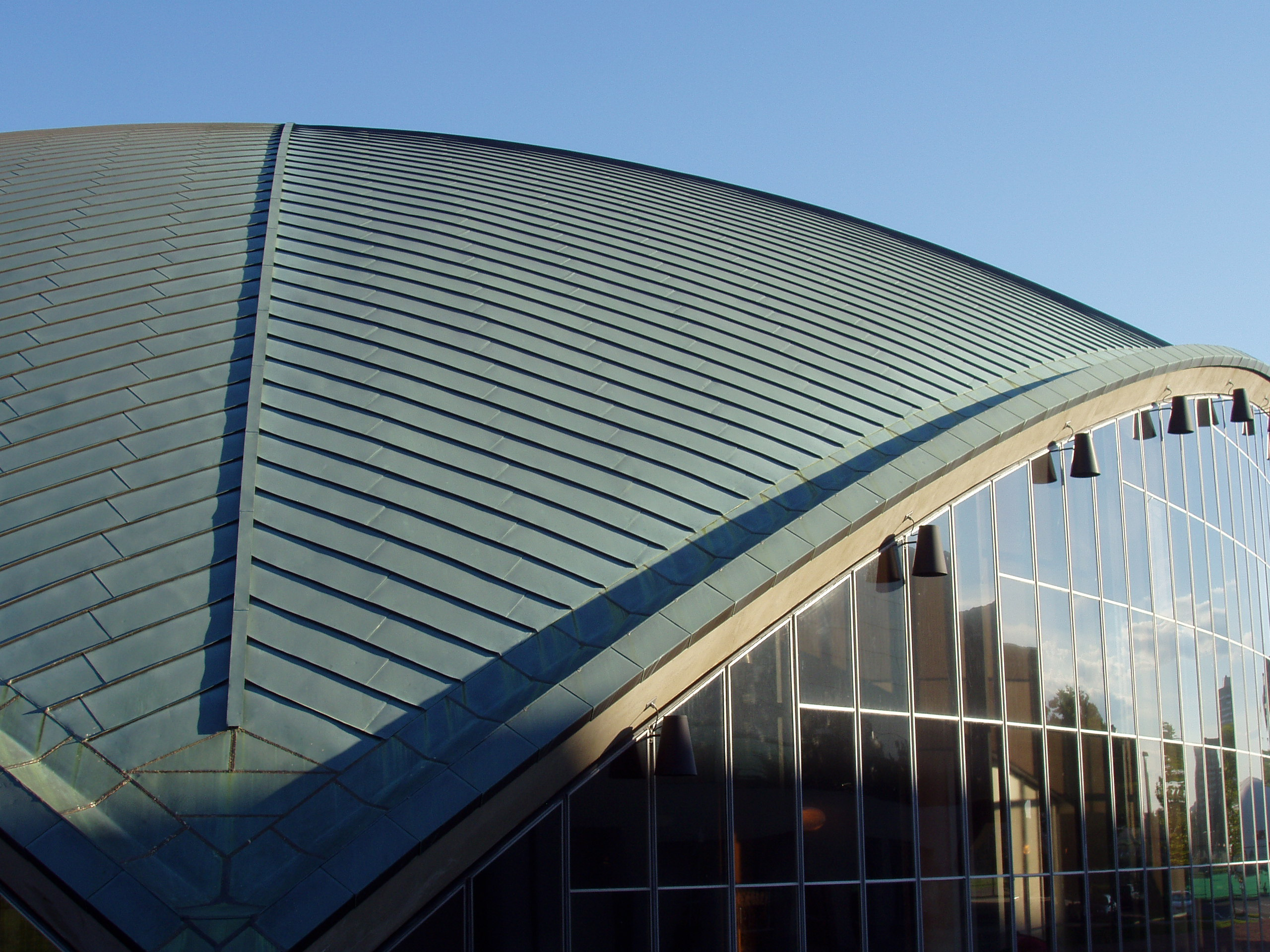 Kresge Auditorium, Massachusetts Institute of Technology (MIT), Cambridge, Massachusetts. Architect Eero Saarinen, 1954. Detail of roofline. Photograph by me, August 2005.